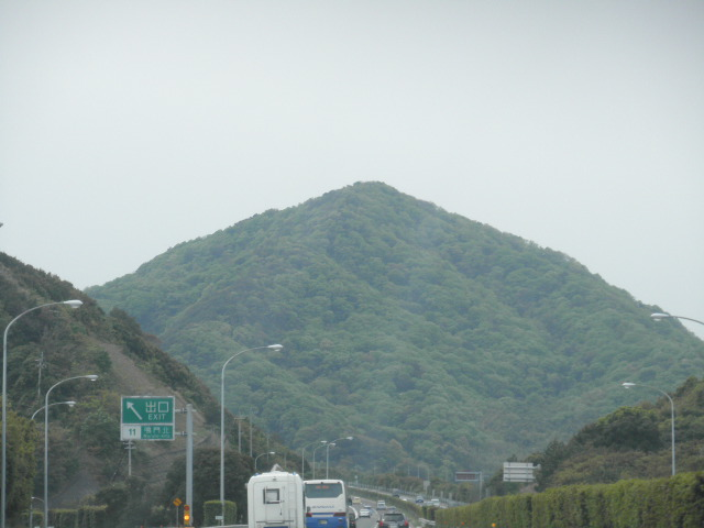 M.t Mitsuishi Narutocity Tokushimapref